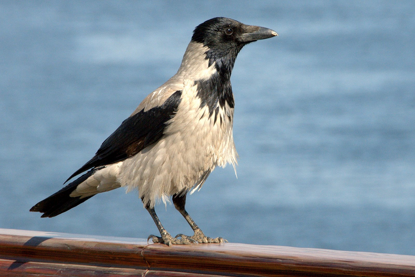 A Hooded Crow standing on a railing on a boat on the Nile in Egypt.